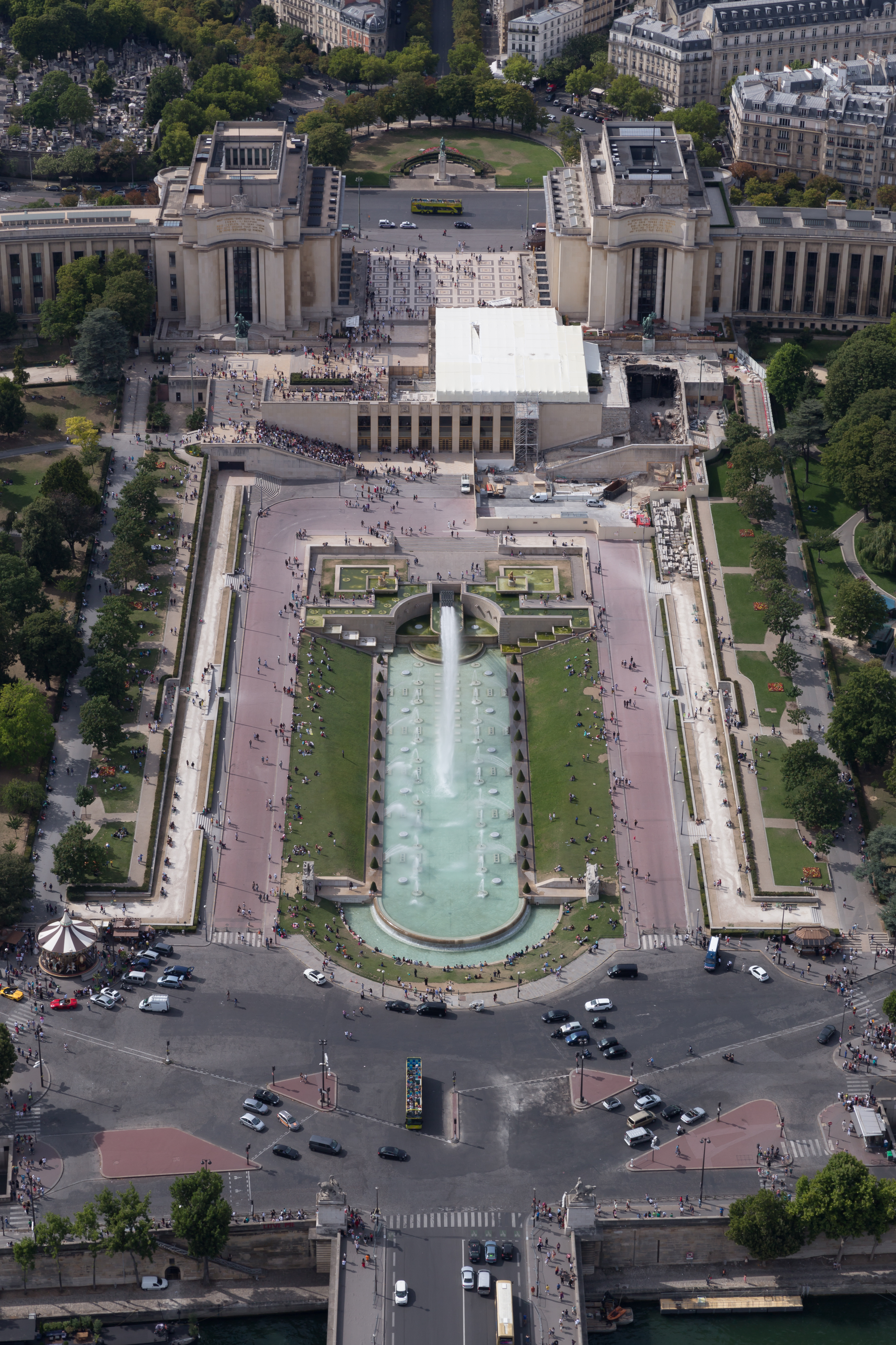 Northwestern view of the jardins du Trocadéro from the Eiffel Tower in Paris.